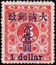 Red missing dot